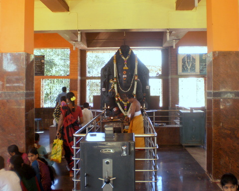 A new Gopuram is under construction